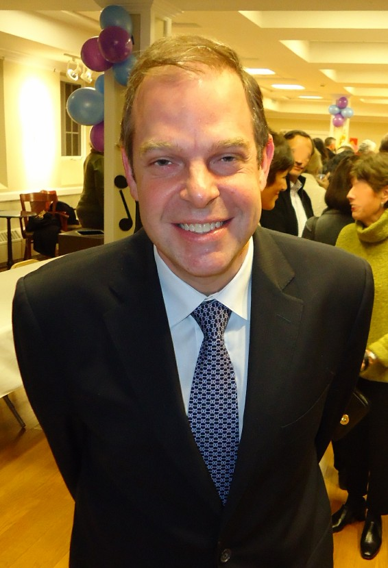 Jazz pianist Bill Charlap after a recital performance at the Unitarian church in Summit, New Jersey.